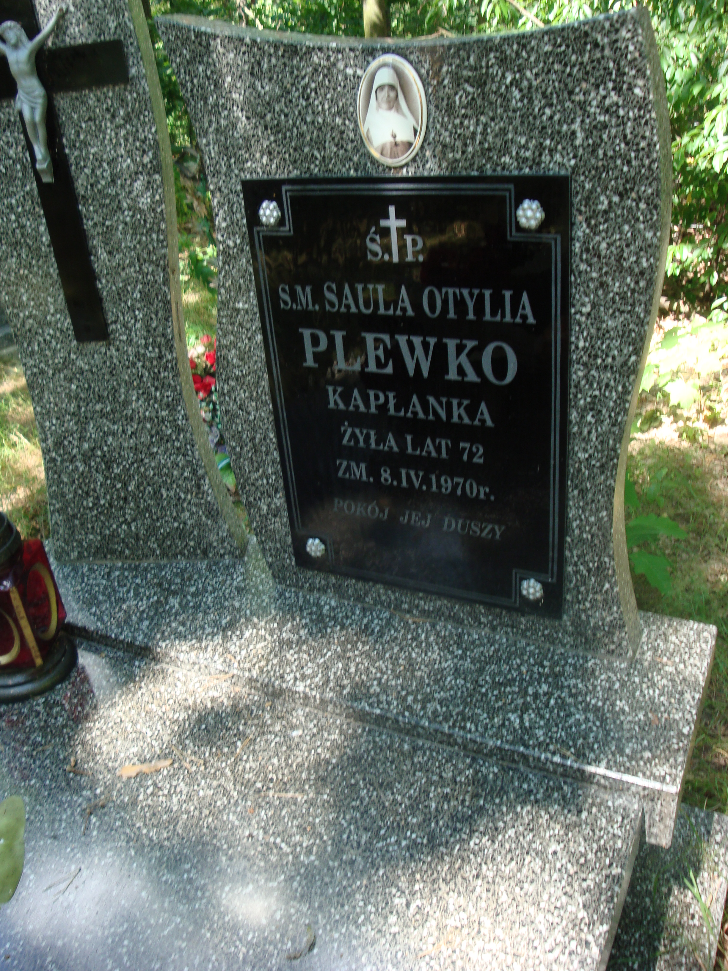 Mariavit Church cemetery in Pogorzel (Poland)